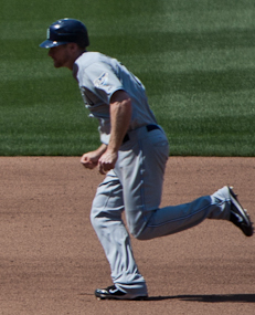 Henry Rodriguez of the Washington Nationals watches a ground ball get past shortstop Jerry Hairston, Jr. as Blake Tekotte rounds second base.